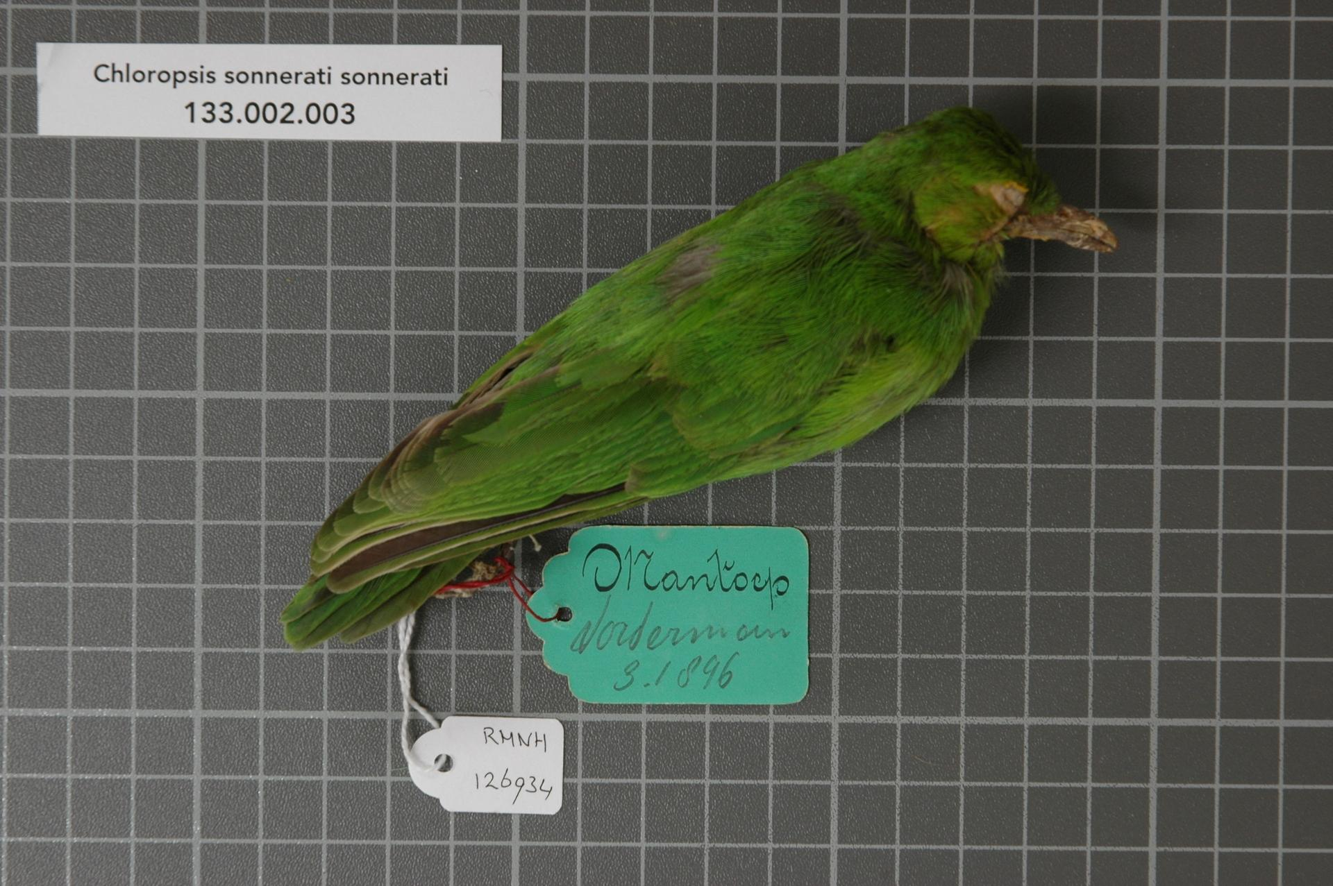 Chloropsis sonnerati sonnerati Jardine & Selby, 1827